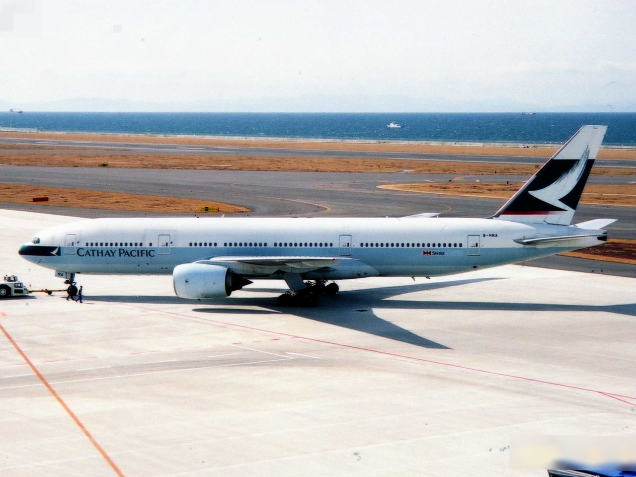 Cathay Pacific Boeing777-267(B-HNA) at Centrair Intl. Airport